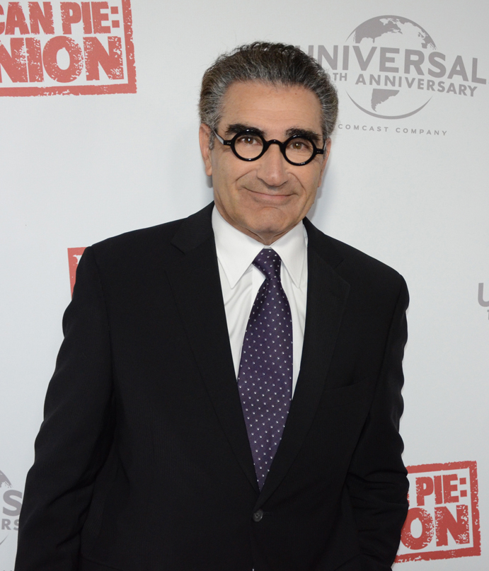 American Reunion Premiere In Melbourne: Australia Loves Latest Pie Flick Earlier in the week 'American Reunion' enjoyed its Australian premiere in Sin City Sydney - outside the famous Harry's Cafe de Wheels to be precise, and tonight they held their Melbourne Premiere at Hoyts Melbourne Central. The cast of 'American Reunion' (better known as 'American Pie') walked the red carpet to help promote the Australian release of the latest instalment of their movie. Some of the Pie cast has been "down under" before. Pie actress Tara Reid has experienced Australia before and got to know Australian advertising industry legend John Singleton quite well a few years ago thanks to Singo's Magic Millions racing carnival on Australia's Gold Coast. 'Pie' stars including Jason Biggs, Seann William Scott, Tara Reid, Mena Suvari, Chris Klein and Eugene Levy did the red carpet playing to a large media pack. 'American Reunion' has been described by a number of media agencies and film critics as the "raunchiest" since the the original 1990s flick. Mums and dads. Public thank you to the great folks at Universal Pictures who were so helpful. We look forward to our next bit of pie, be it Australian or Americans - whatever comes first. The tag line is 'Save the best piece for last', and we are tending to agree. Thumbs up. Storyline... Over a decade has passed and the gang return to East Great Falls, Michigan, for the weekend. They will discover how their lives have developed as they gather for their high school reunion. How has life treated Michelle, Jim, Heather, Oz, Kevin, Vicky, Finch, Stiffler, and Stiffler's mom? In the summer of 1999, it was four boys on a quest to lose their virginity. Now Kara is a cute high school senior looking for the perfect guy to lose her virginity to. Websites American Reunion official website Universal Pictures NBC Universal Hoyts Music News Australia